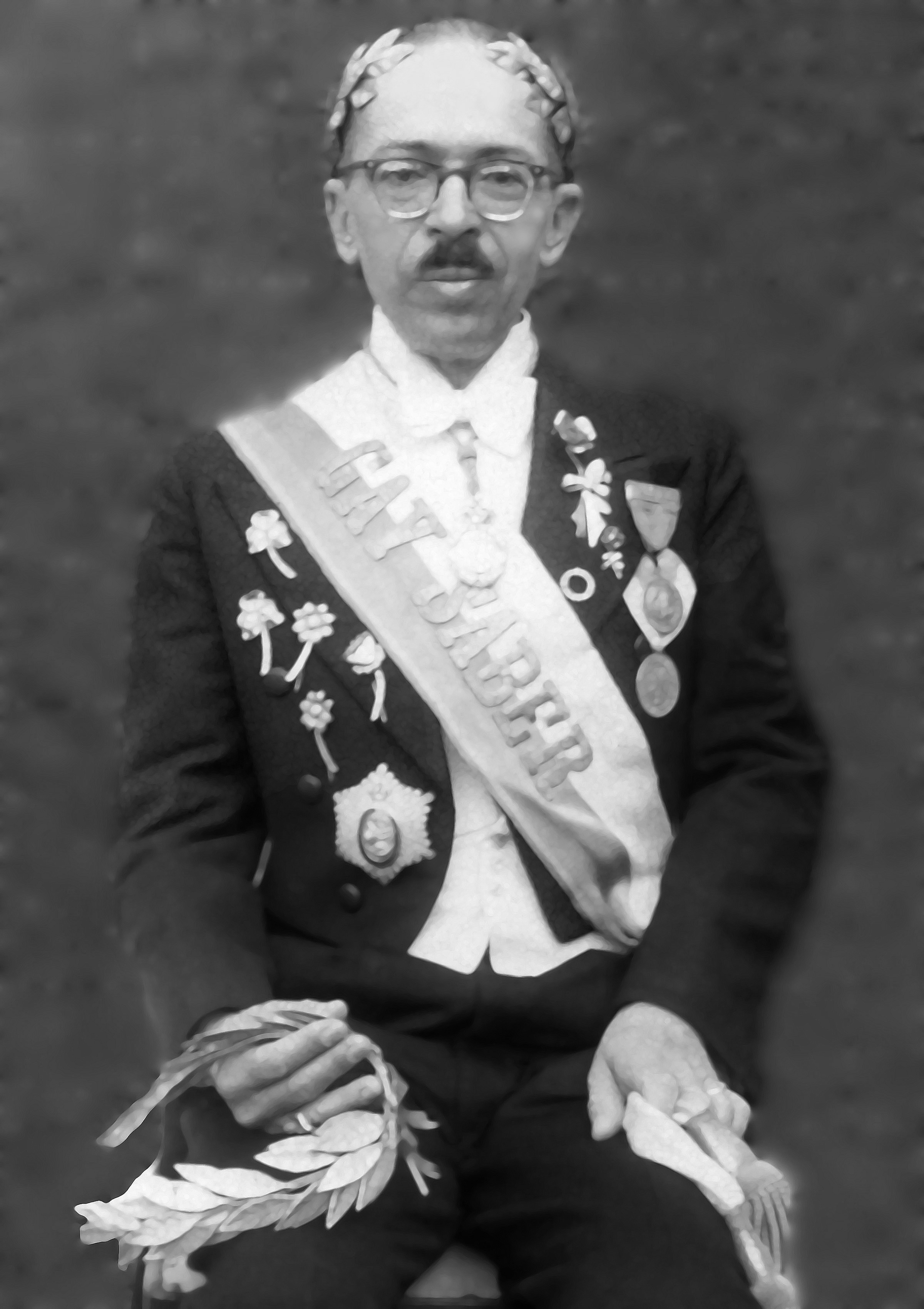 Ilmo. Sr. D. Javier del Granado y Granado, V conde de Cotoca